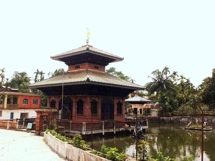 Arjundhara Temple,Jhapa